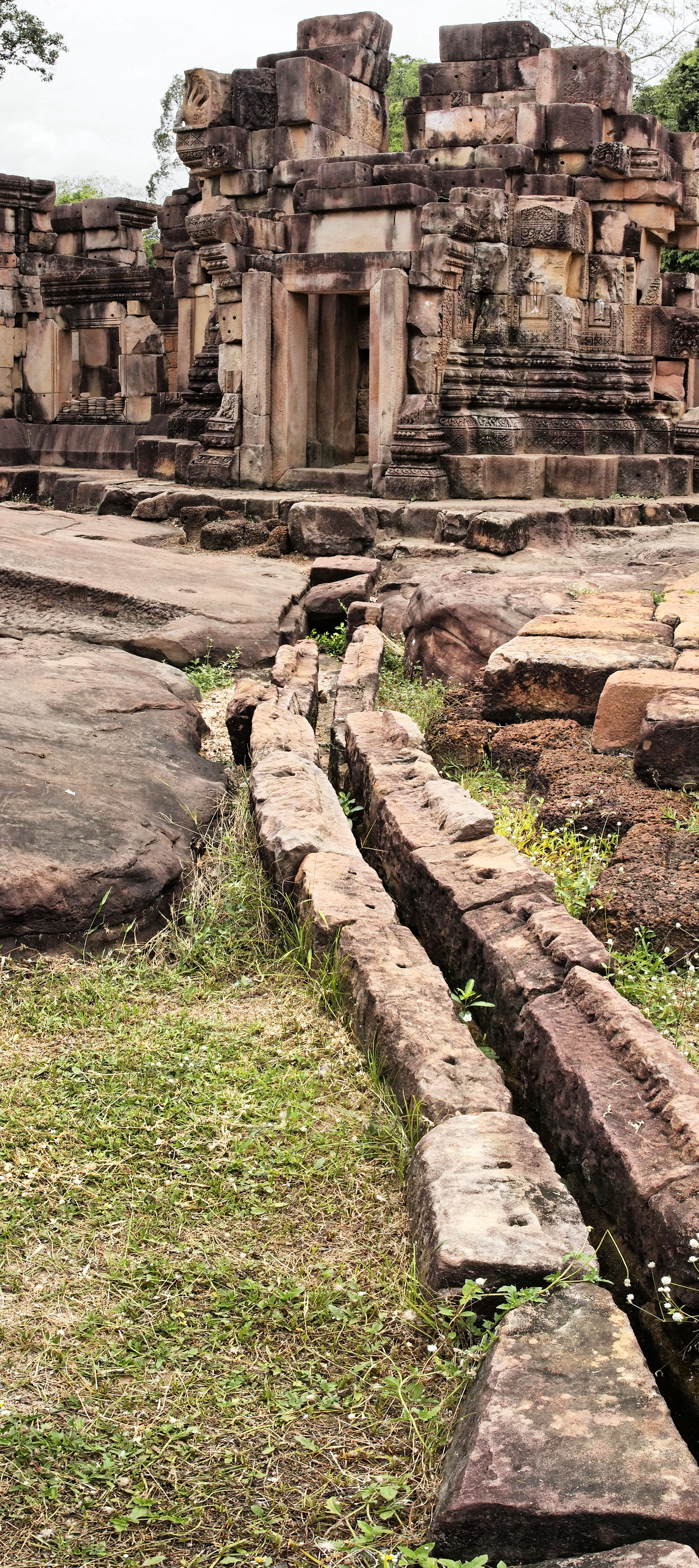 Prasat Ta Muen Thom, Thailand